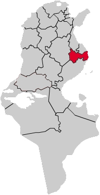 Map of Tunisia with highlighted Mahdia Governorate